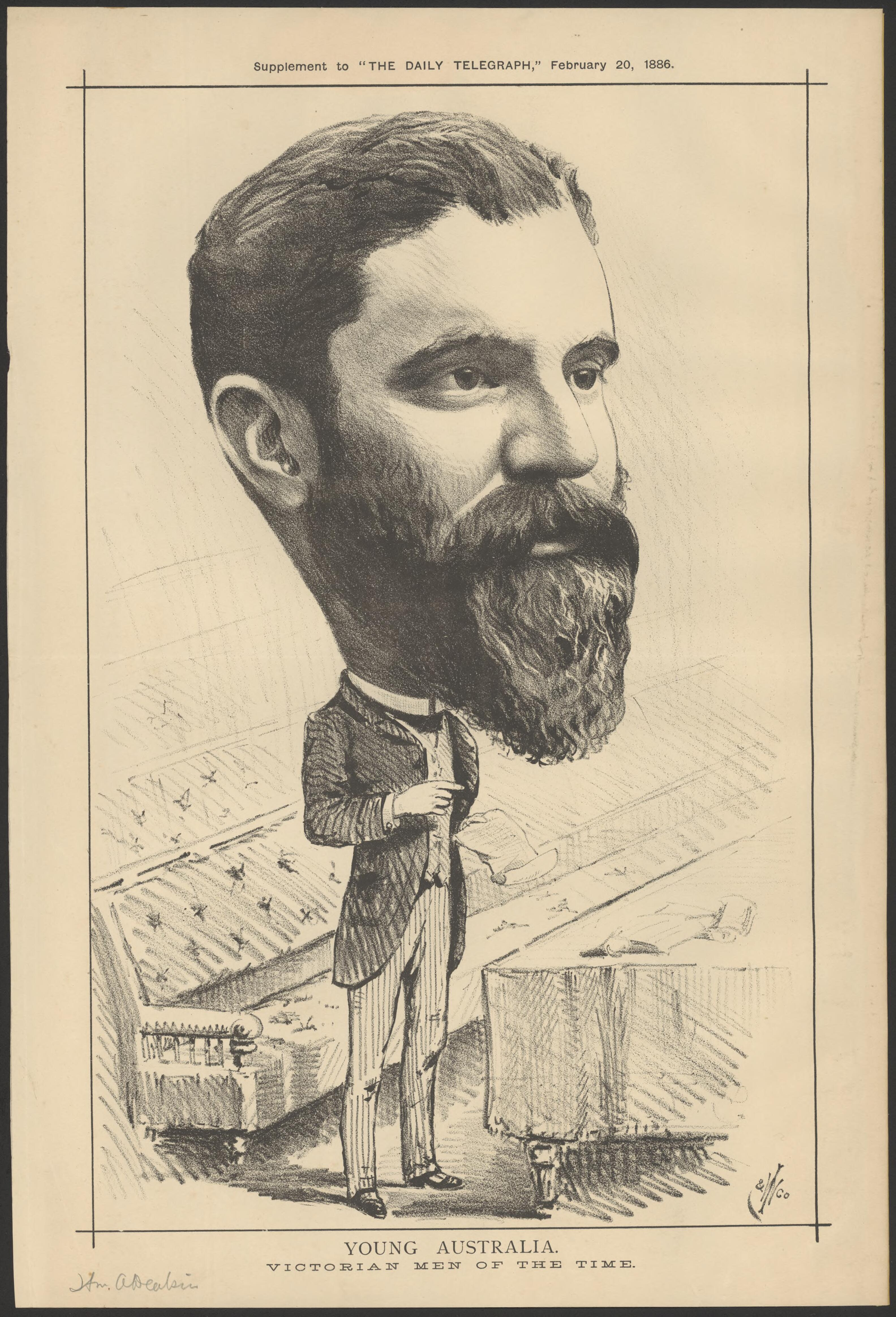 Caricature of Alfred Deakin as a young politician in the colonial Parliament of Victoria. Captioned "Young Australia: Victorian Men of the Time"